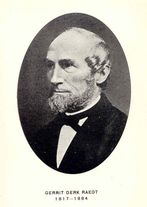 Portret of Gerrit Derk Raedt, major of Diepenheim & Hengelo